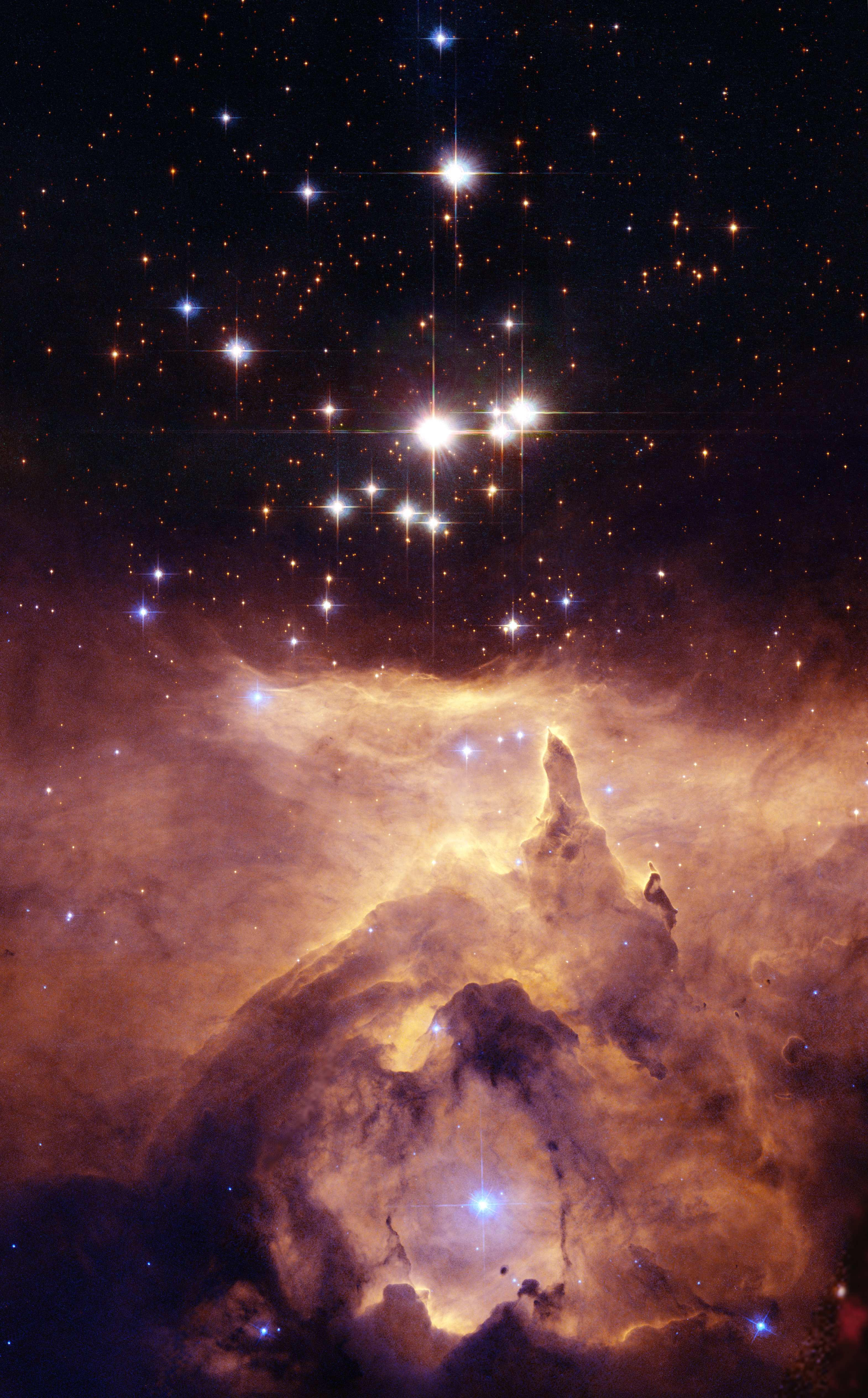 The star cluster Pismis 24 lies in the core of the large emission nebula NGC 6357 that extends one degree on the sky in the direction of the Scorpius constellation. Part of the nebula is ionised by the youngest (bluest) heavy stars in Pismis 24. The intense ultraviolet radiation from the blazing stars heats the gas surrounding the cluster and creates a bubble in NGC 6357. The presence of these surrounding gas clouds makes probing into the region even harder.